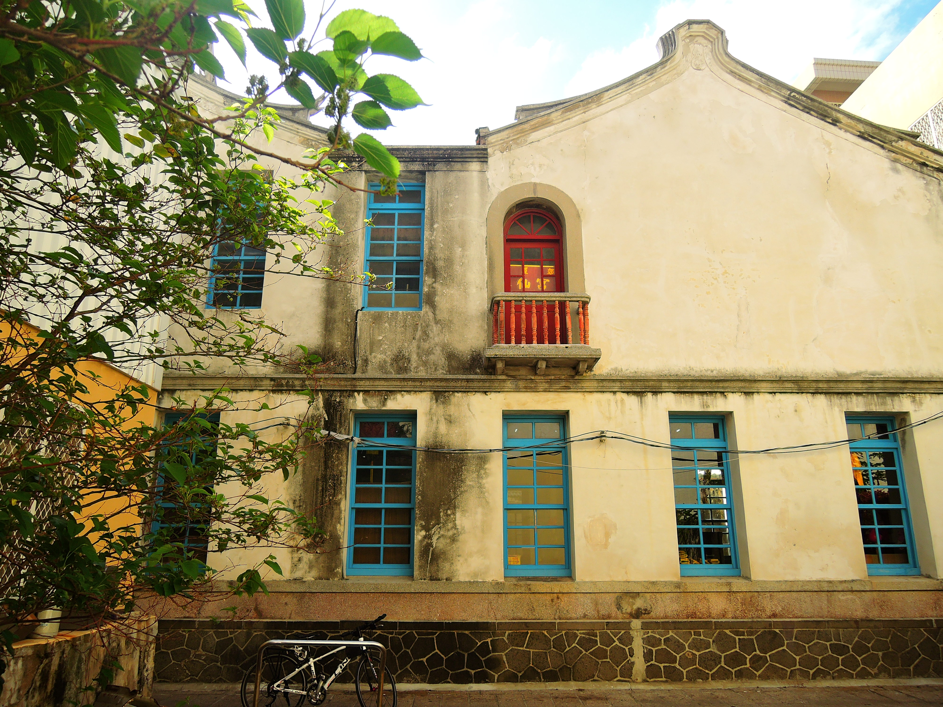 The Gable of Shui-Xian Temple in Magong City, Penghu, Taiwan